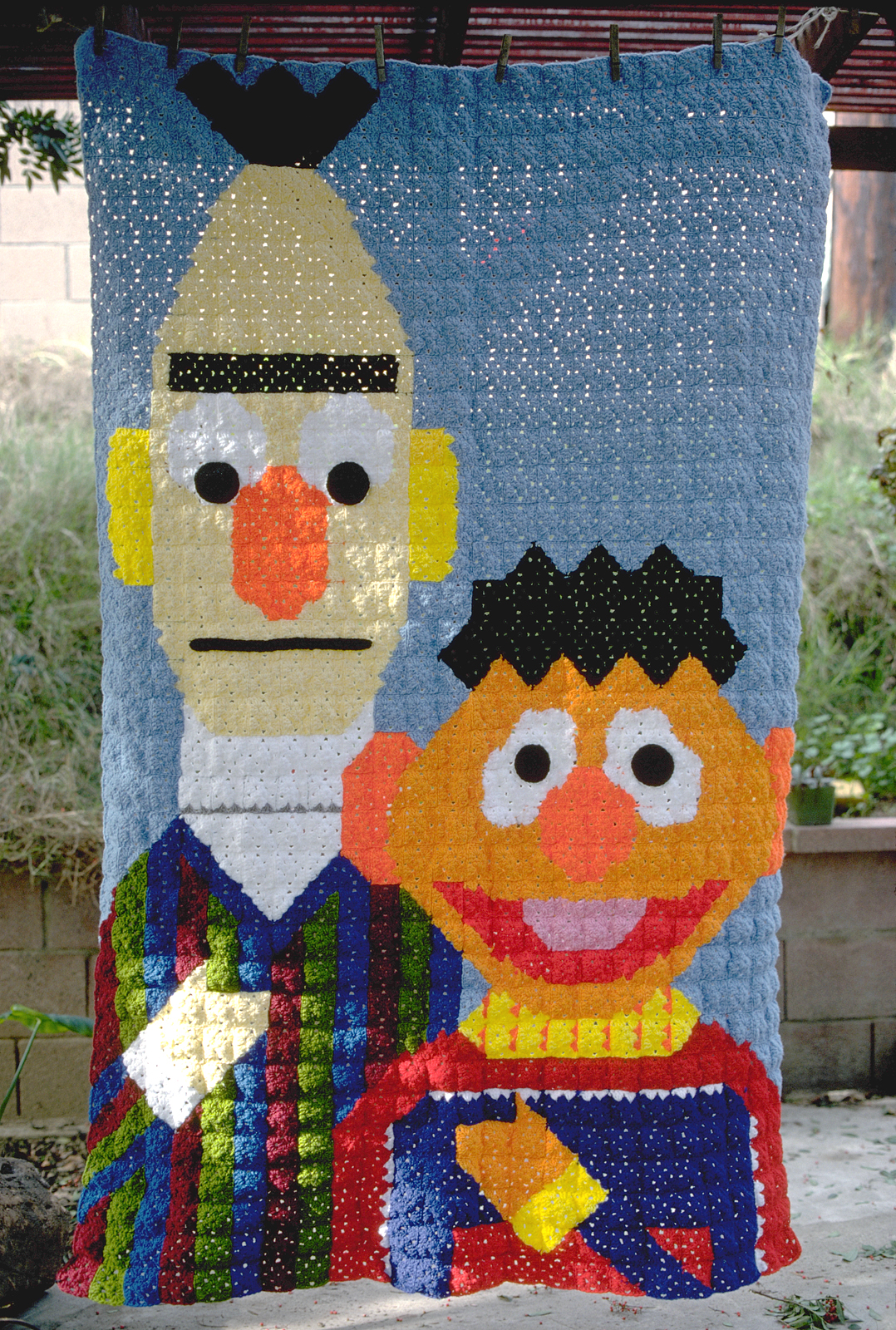 Sesame Street characters Bert and Ernie afghan my wife crocheted for a granddaughter. It consists of 816 "granny squares" sewed together.